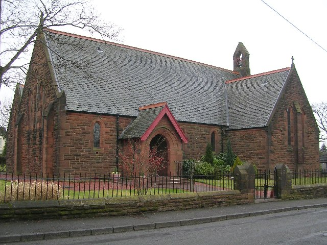 Stepps Parish Church.